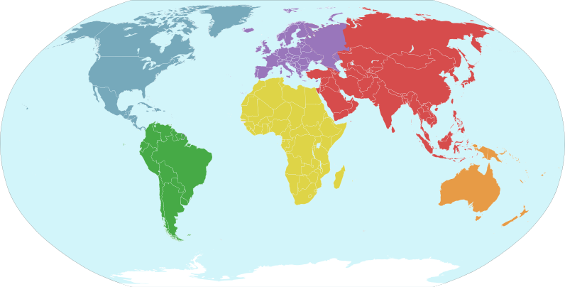 Continents of the world.